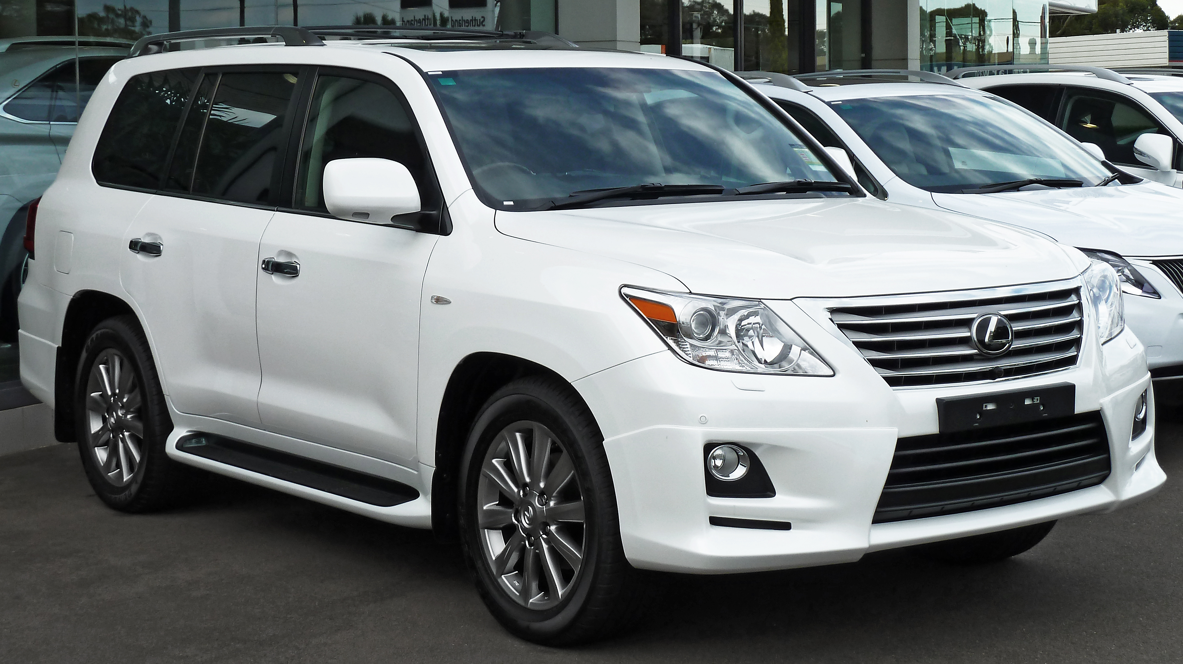 2010–2011 Lexus LX 570 (URJ201R MY10) Sports Luxury wagon. Photographed at Lexus of Sutherland, Kirrawee, New South Wales, Australia.